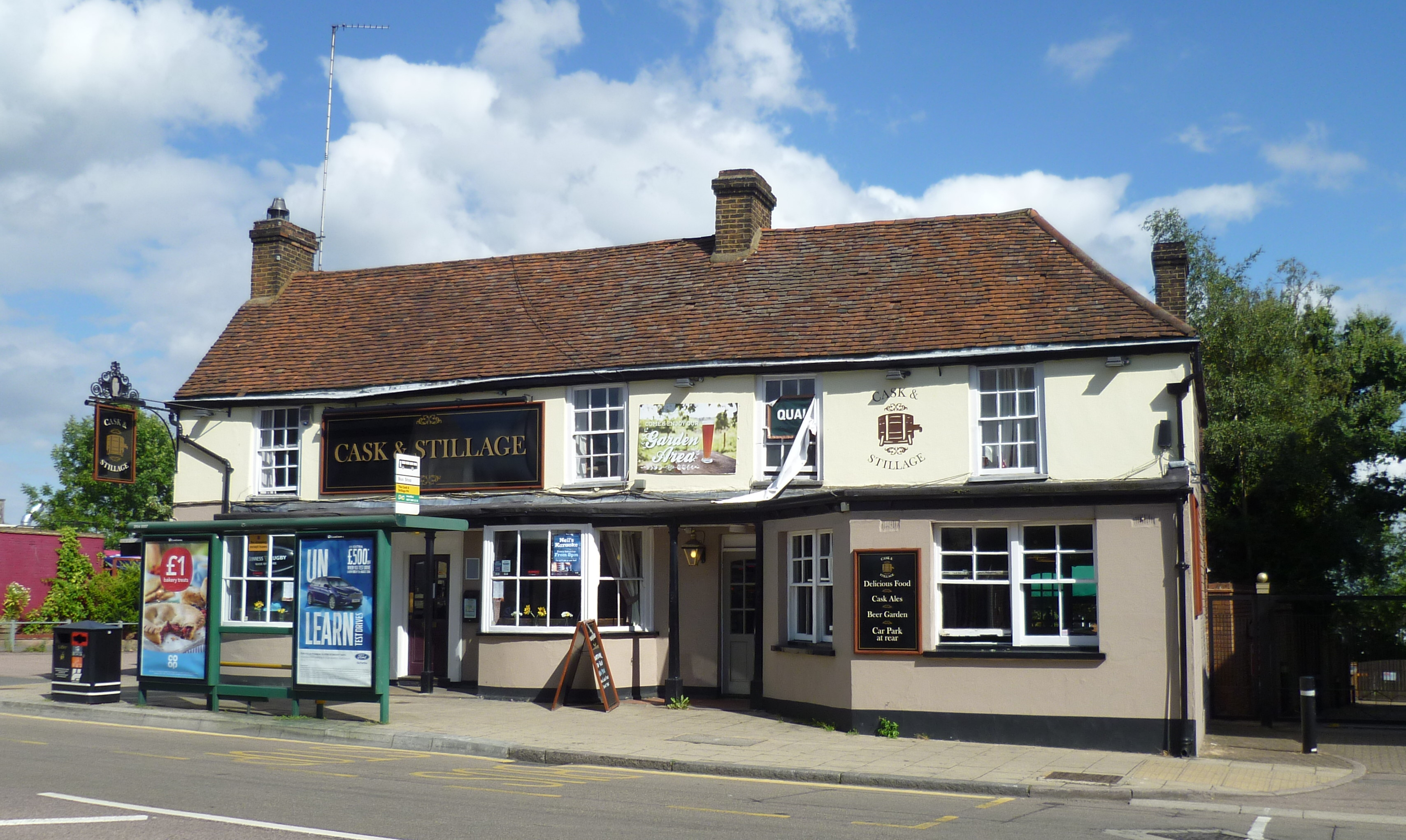 Cask & Stilage pub Potters Bar